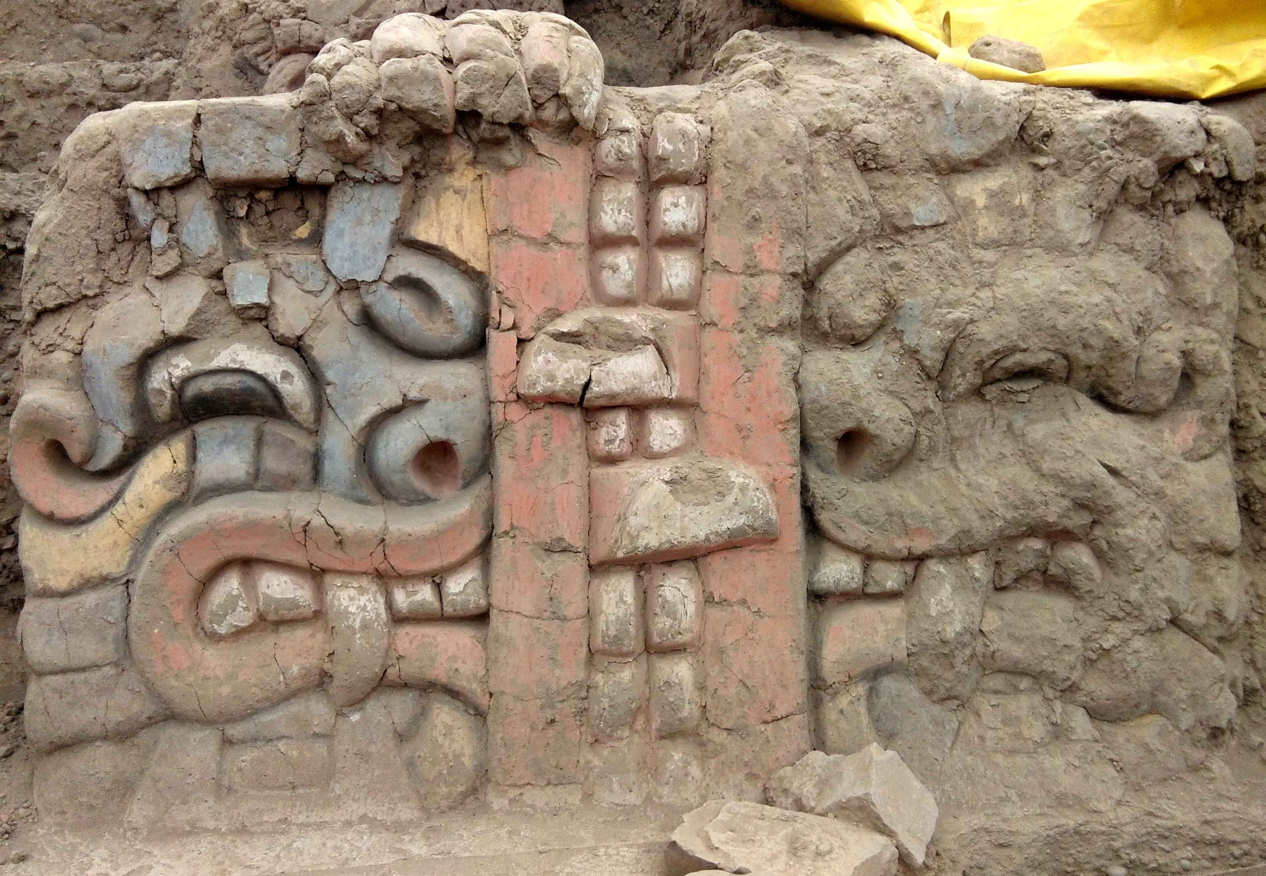 We see clearly in the friezes of high relief, the artistic style Chavín.